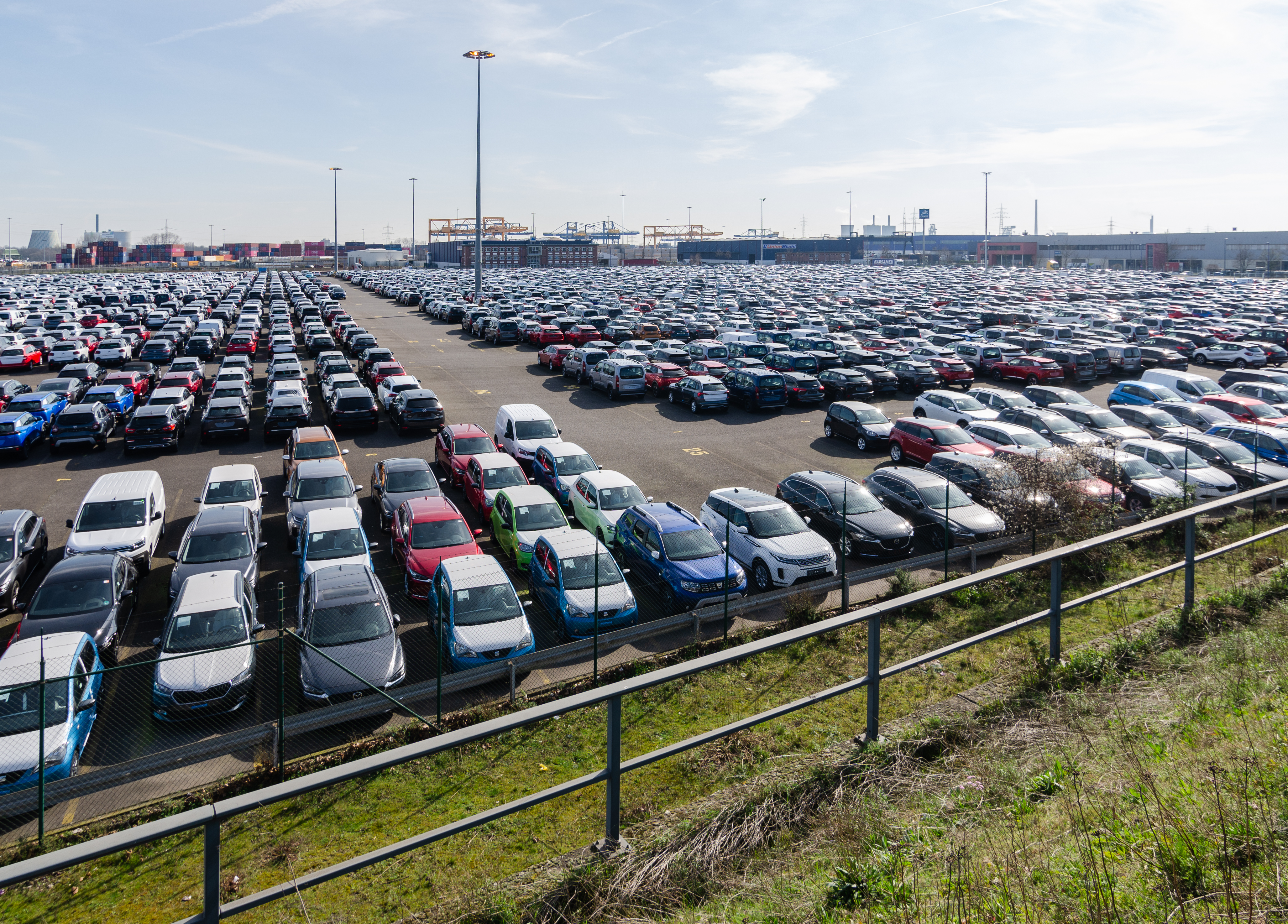 Duisburg (North Rhine-Westphalia, Germany) – borough Rheinhausen, district Friemersheim – logistics center area "logport I" – car terminal